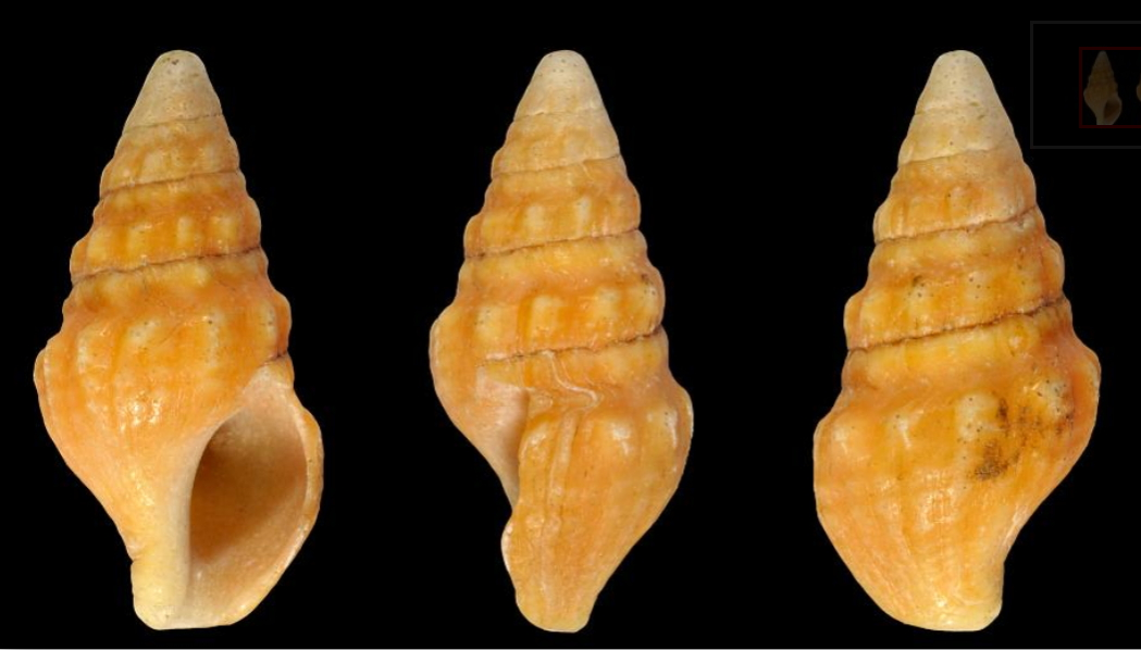 Clionella semicostata (Kiener, 1840); family Clavatulidae; holotype of Drillia halidoma in the Smithsonian Institution